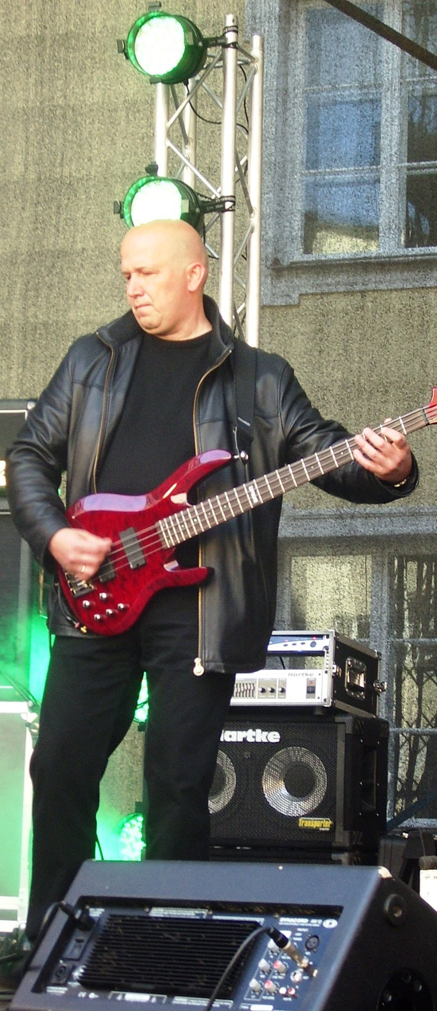 Eerik Olle is Estonian musician and architect.